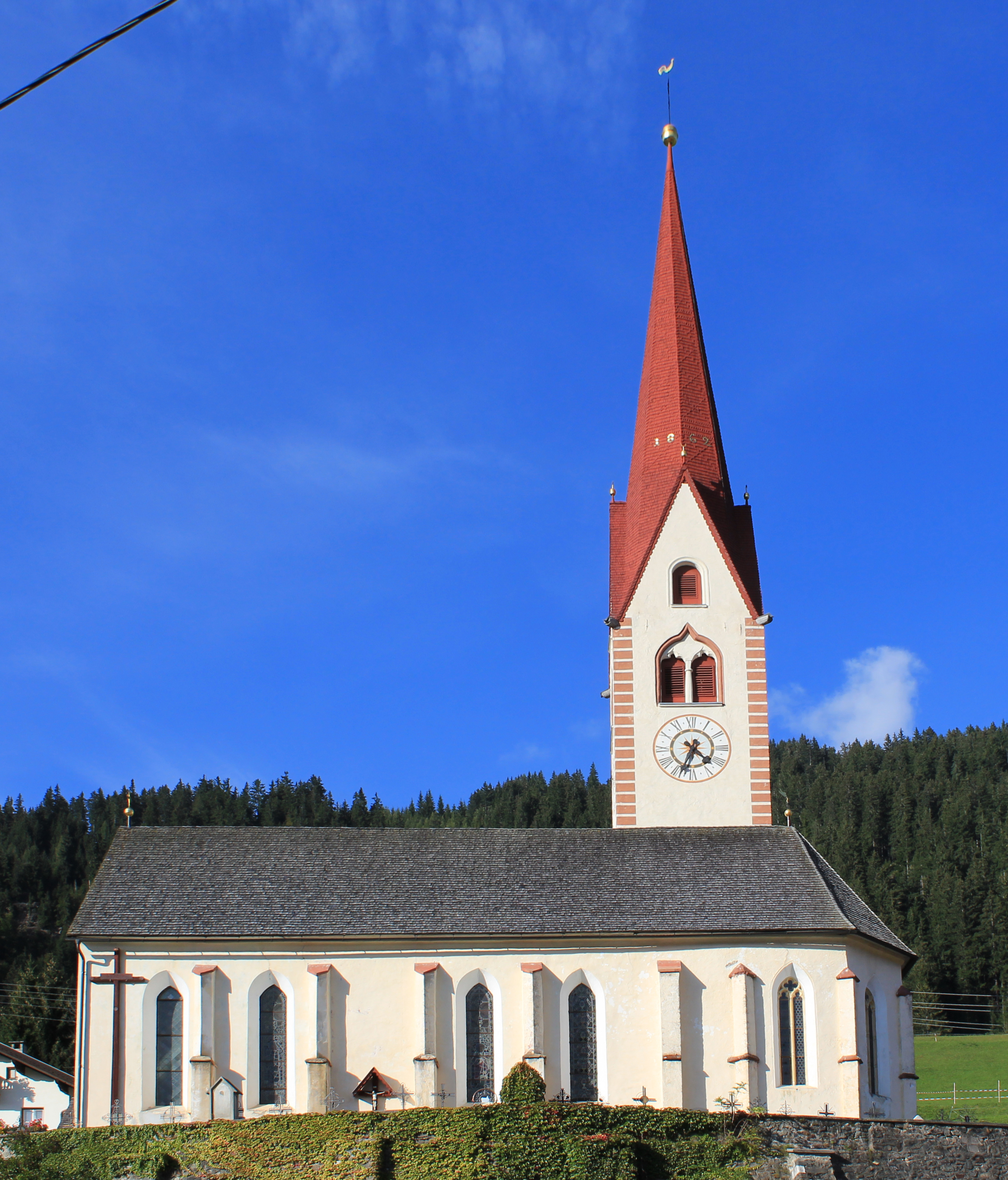 Parishchurch St. Lorenzen im Lesachtal in the community Lesachtal